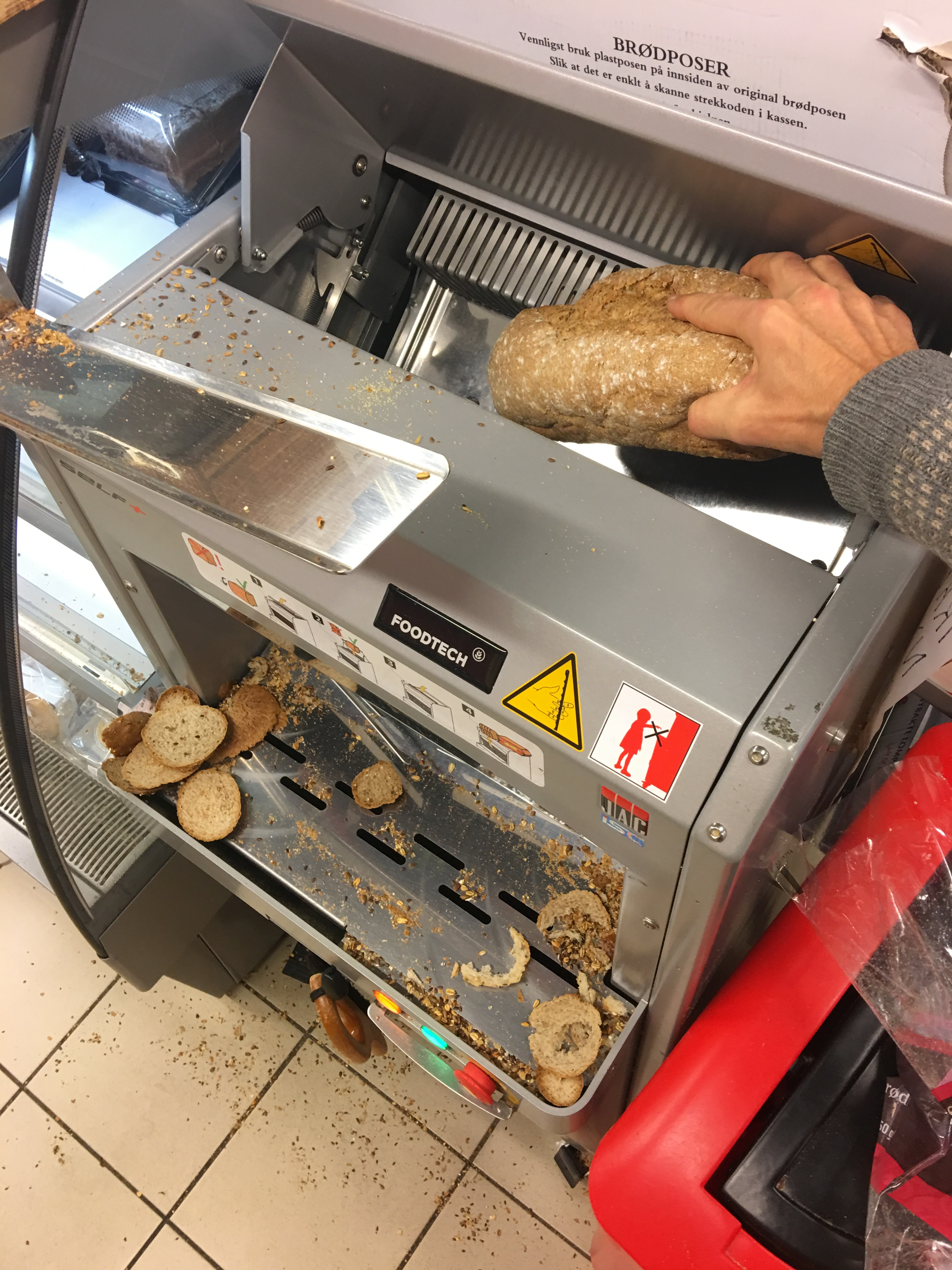 Foodtech bread slicing/cutting machine (brødskjæremaskin) in COOP EXTRA, Norwegian supermarket chain/grocery store, in Tjøme, Norway. Loaf of bread is put into machine by customer for slicing.